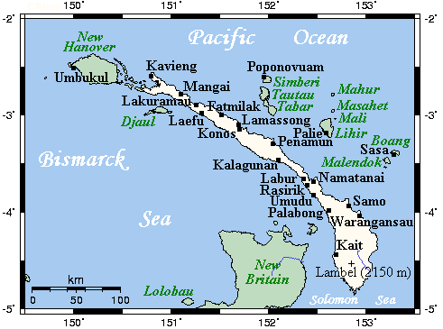 A map showing main towns and volcanoes of New Ireland, Bismarck Archipelago, Papau New Guinea